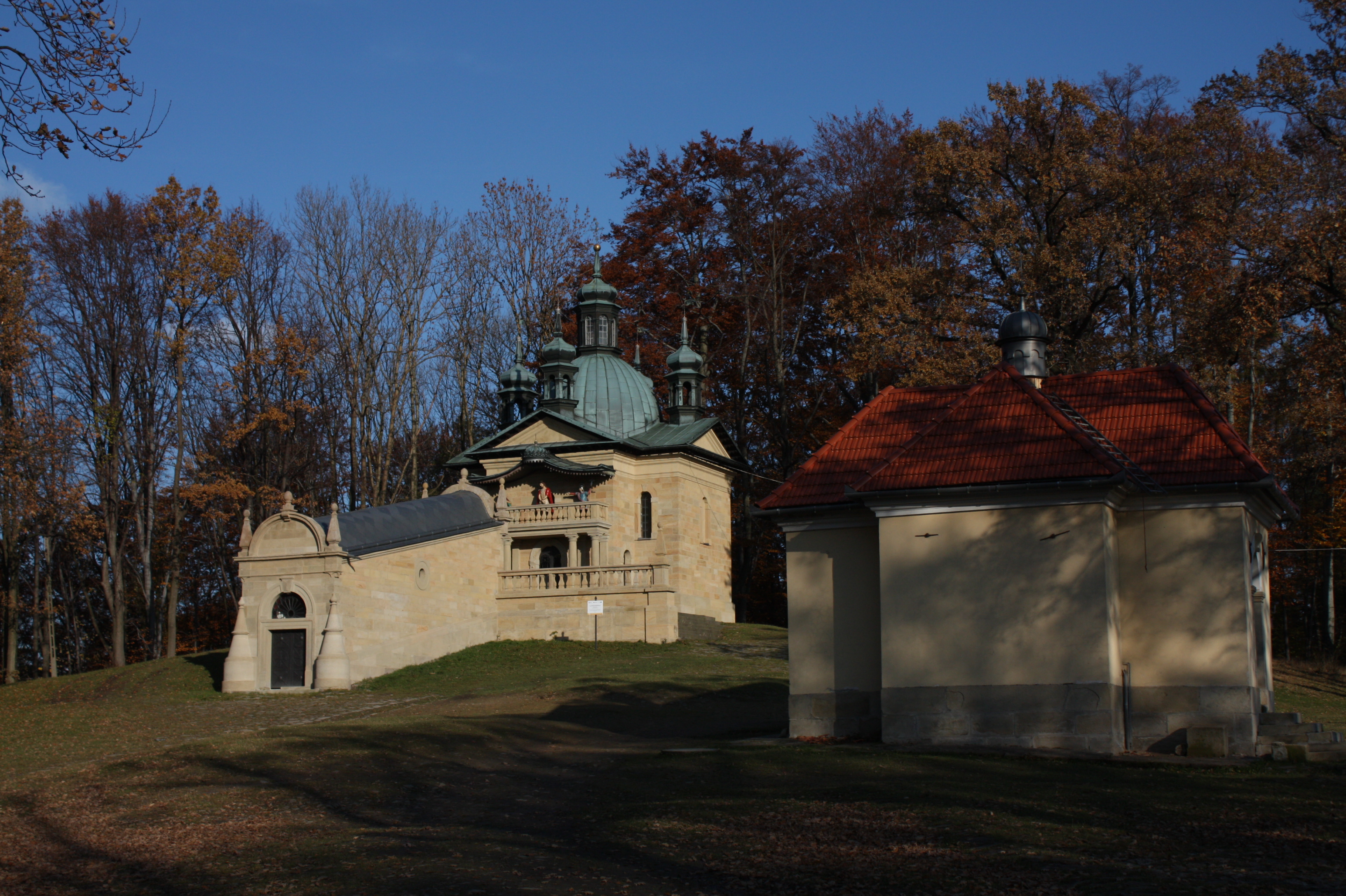 Kalwaria Zebrzydowska, Pathways of Passion of Christ, Chapels of Ecce Homo and Bearing of the Cross